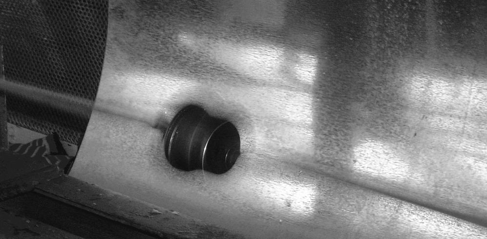 balansirovka-rotora-03